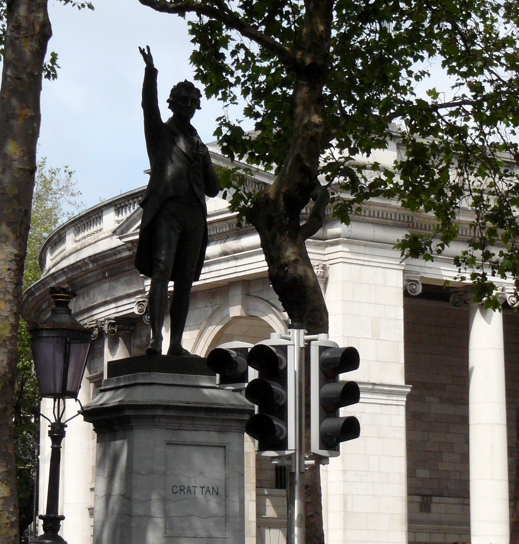 Bronze statue of Henry Grattan (3 July 1746 - 6 June 1820), the 19th century Irish politician beside the former Grattan Parliament or Irish House of Commons, now Bank of Ireland building, College Green, Dublin. Grattan was a member of the Irish House of Commons and a campaigner for legislative freedom for the Irish Parliament in the late 18th century. He opposed the Act of Union 1800 that merged the Kingdoms of Ireland and Great Britain.